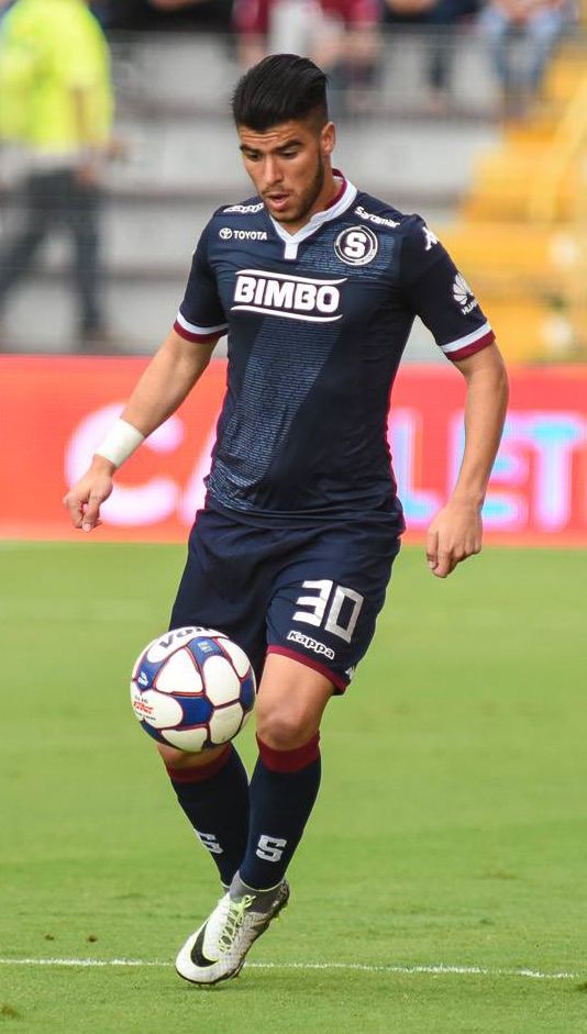 Ulises Segura playing with Saprissa in November, 2016